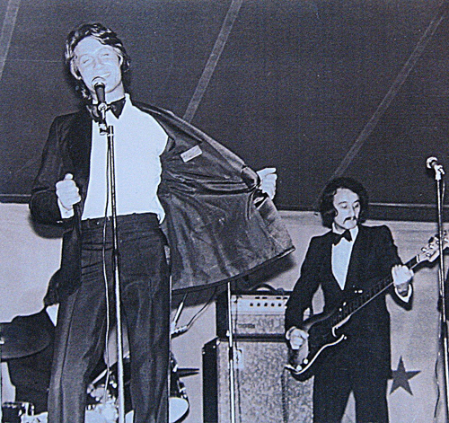 Jacques Dutronc in concert with bassist Noel Mirol in Annecy in 1971.